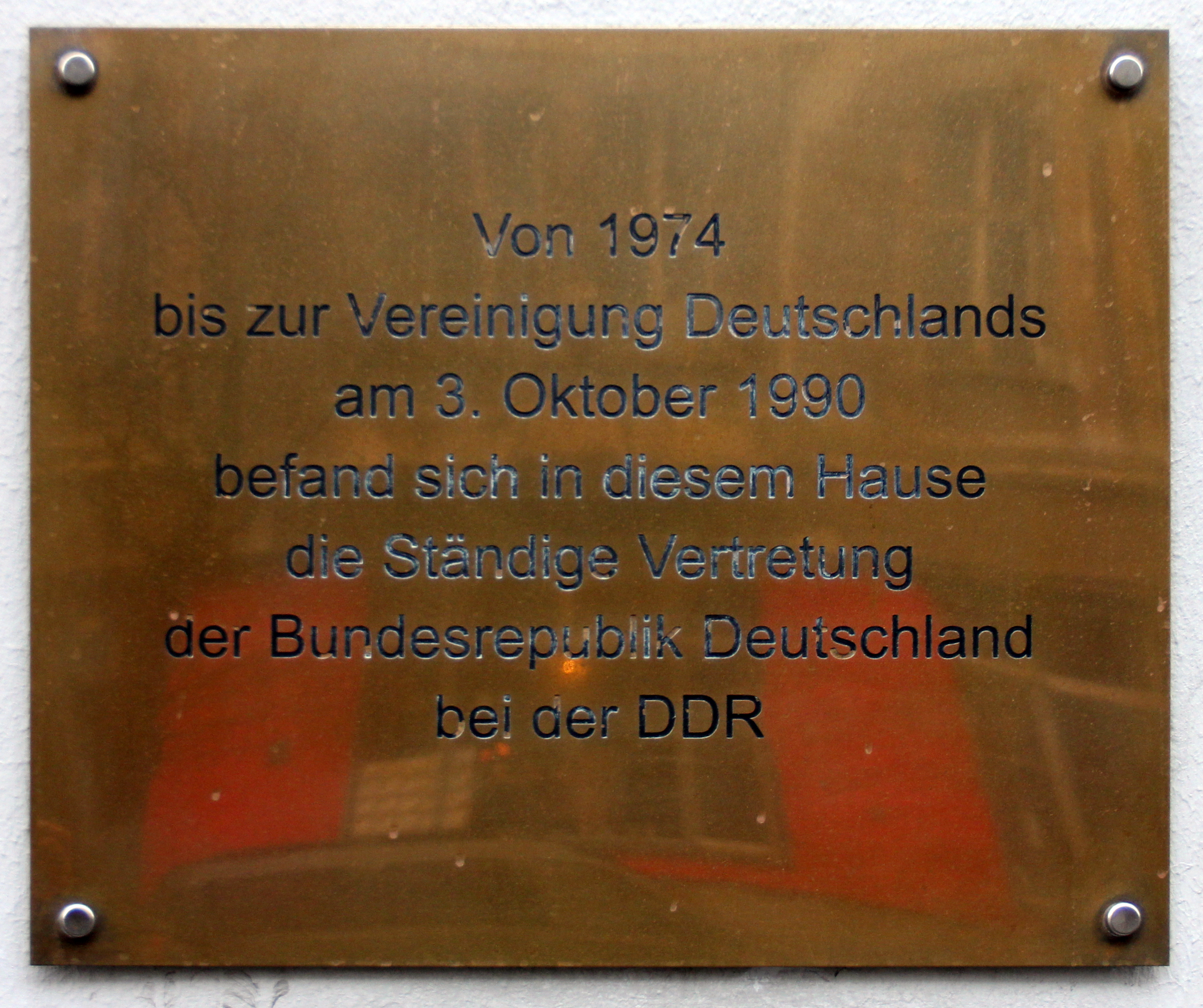 Memorial plaque, Ständige Vertretung der Bundesrepublik Deutschland bei der DDR, Hannoversche Straße 30, Berlin-Mitte, Germany